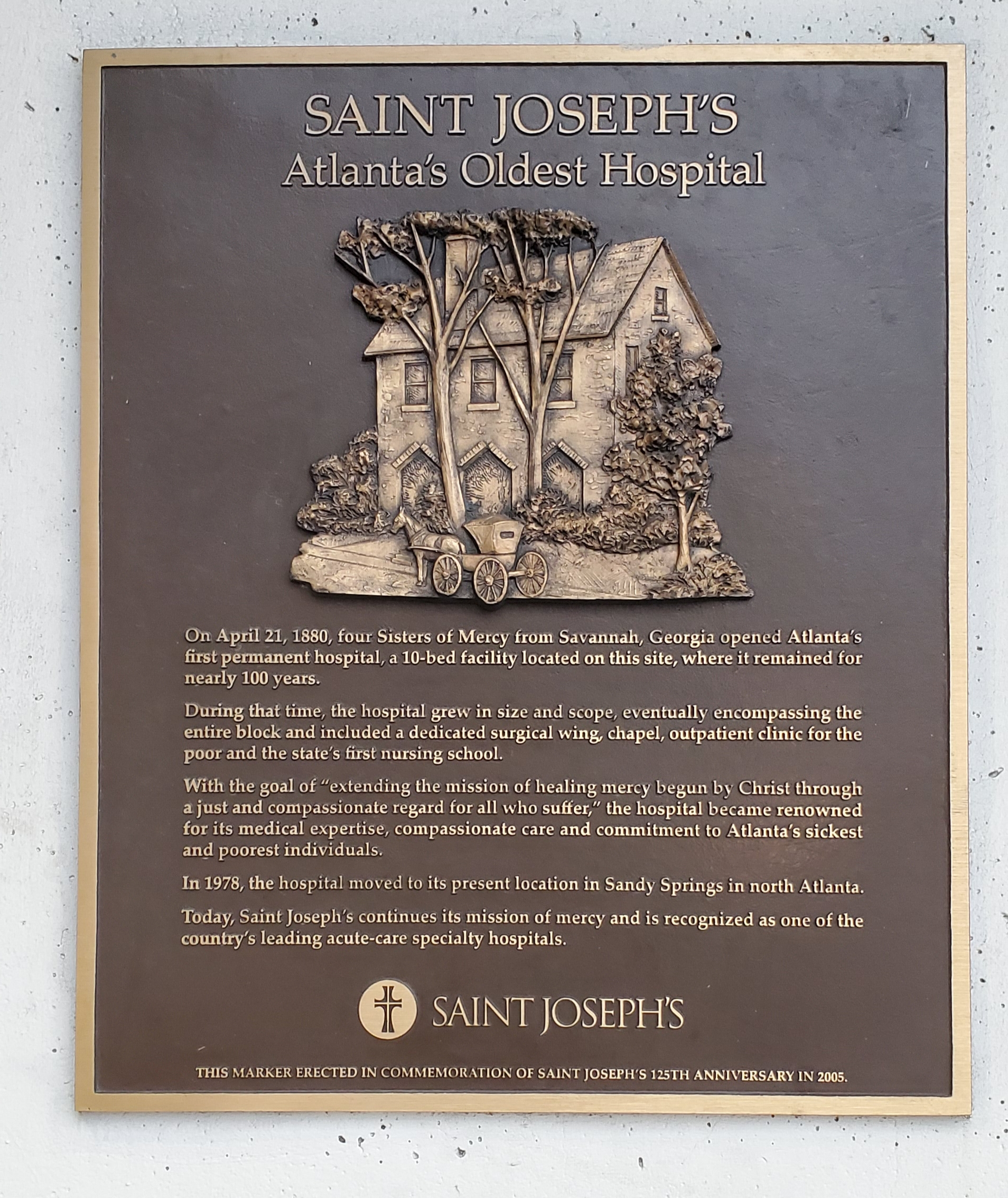 Plaque affixed to the Atlanta Marriott Marquis commemorating the original location Saint Joseph's Hospital in Atlanta, Georgia.